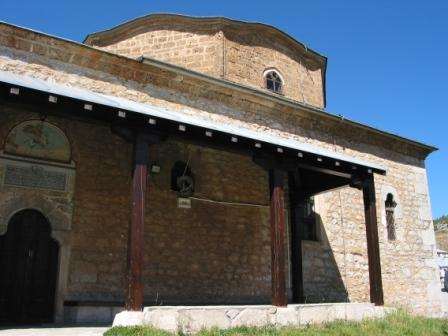 The church in Lazaropole.